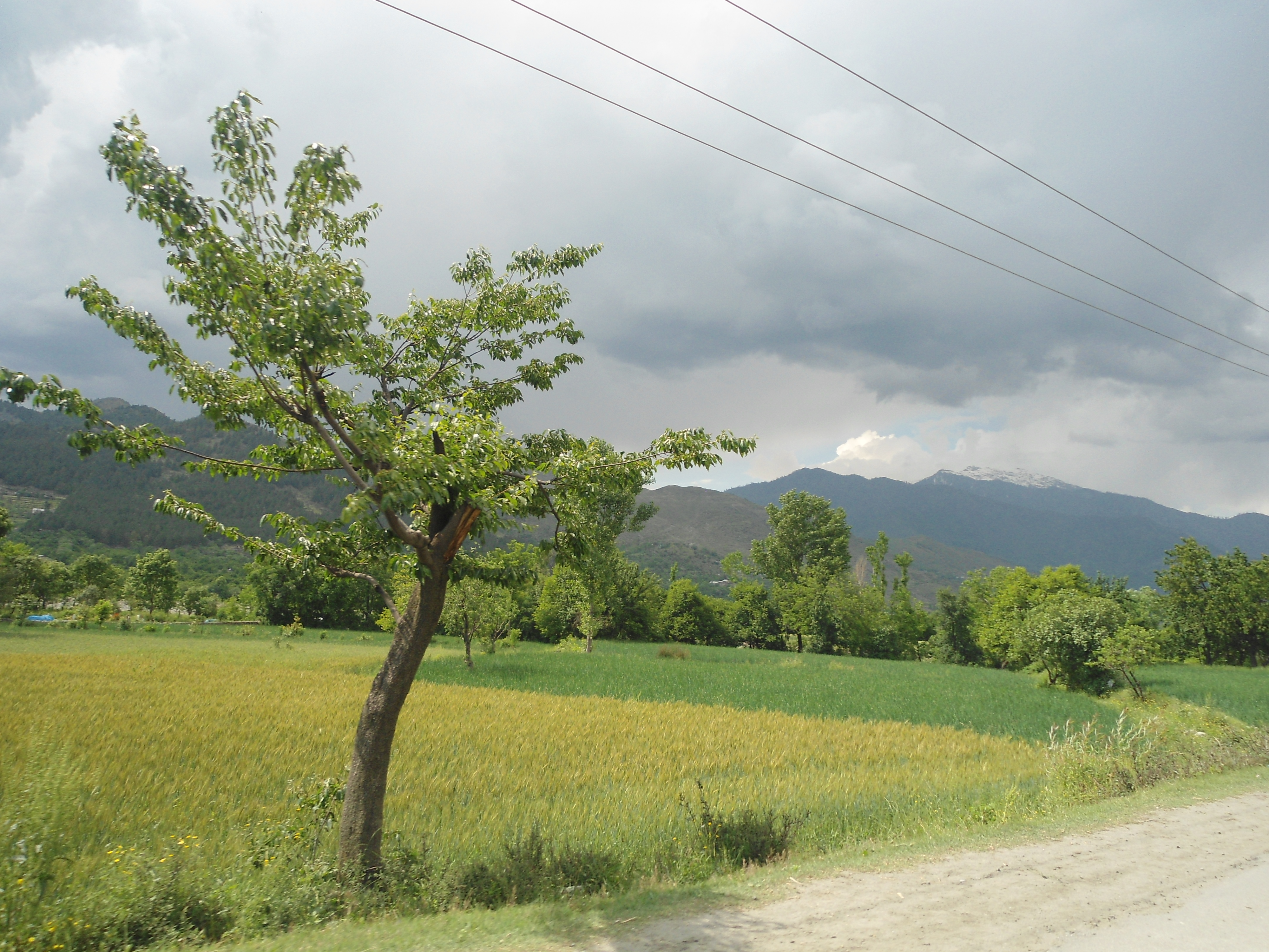 on way to swat